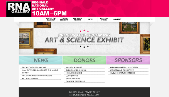 This is a screenshot of the RNA Gallery, a website featuring science and artwork that is used in a number of missions in the History of Biology Game.